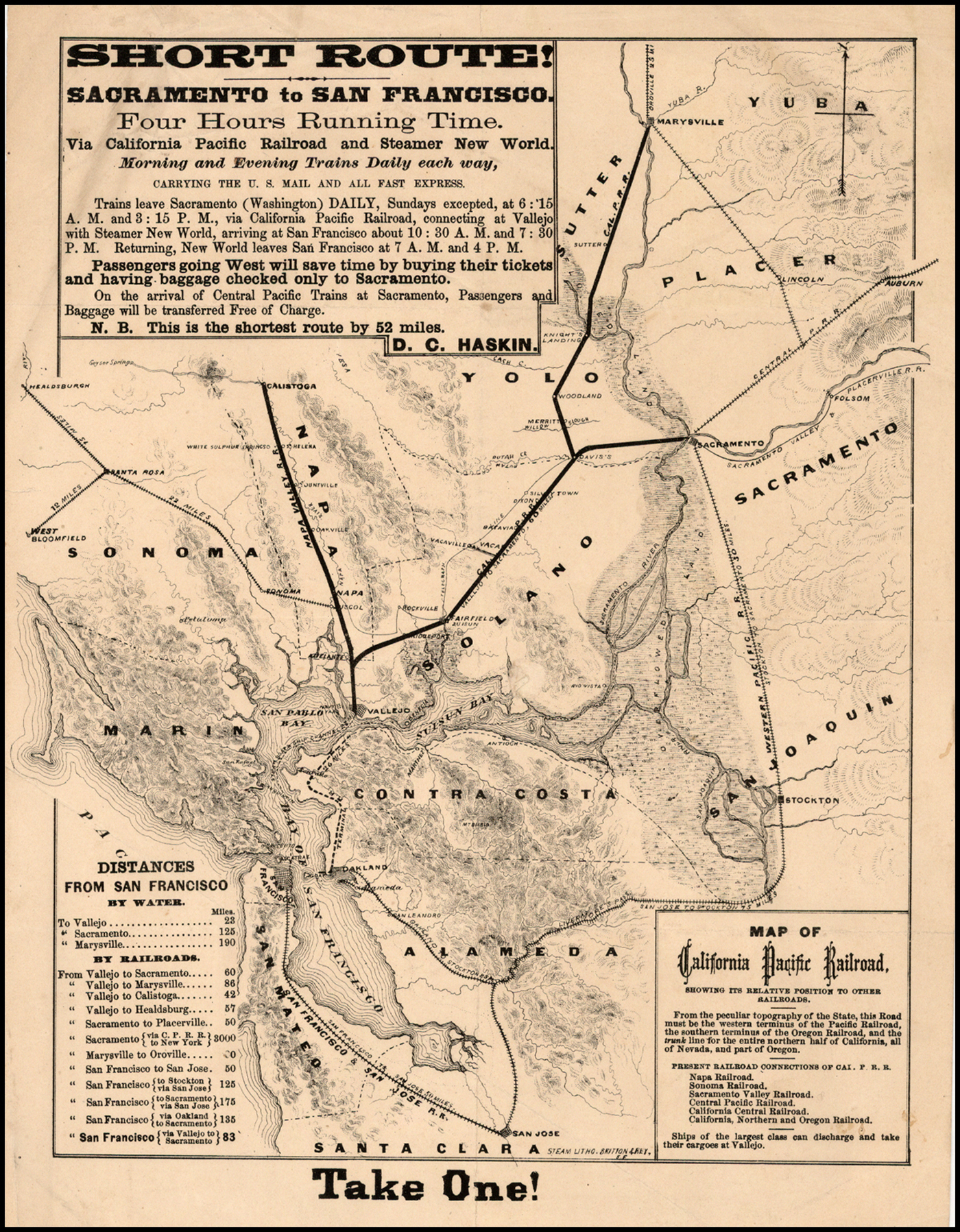 Unrecorded early California Railroad Map, one of the first printed maps to focus on the routes serviced by a single California Railroad. The California Pacific Railroad Company was incorporated in 1865 in San Francisco as the California Pacific Rail Road Company. It was renamed the California Pacific Railroad Extension Company in the spring of 1869, then renamed the California Pacific Railroad later that same year. The railroad was constructed just months prior to the completion of the Central Pacific/Union Pacific Transcontinental Railway. The present map is a fascinating look at the history of the California Pacific Railroad, during the brief period where it was operated by its original builder, D.C. Haskin. The map show the lines of the CPRR as they existed at some point in time between the second half of 1868 (based upon information depicted on the neighboring line between Healdsburg and Sonoma which was never in fact constructed), the time of the acquistion of the Napa Valley Rail Road Company (June 9, 1869) and the sale of the Railroad by Haskin to investors led by former California Governor and Senator Milton Slocum Latham (January 15, 1870). The Napa Valley R.R. is still shown as being a connection, rather than part of the CPRR, but the line from Davis to Sacramento is shown as completed, which did not occur until January 1870.